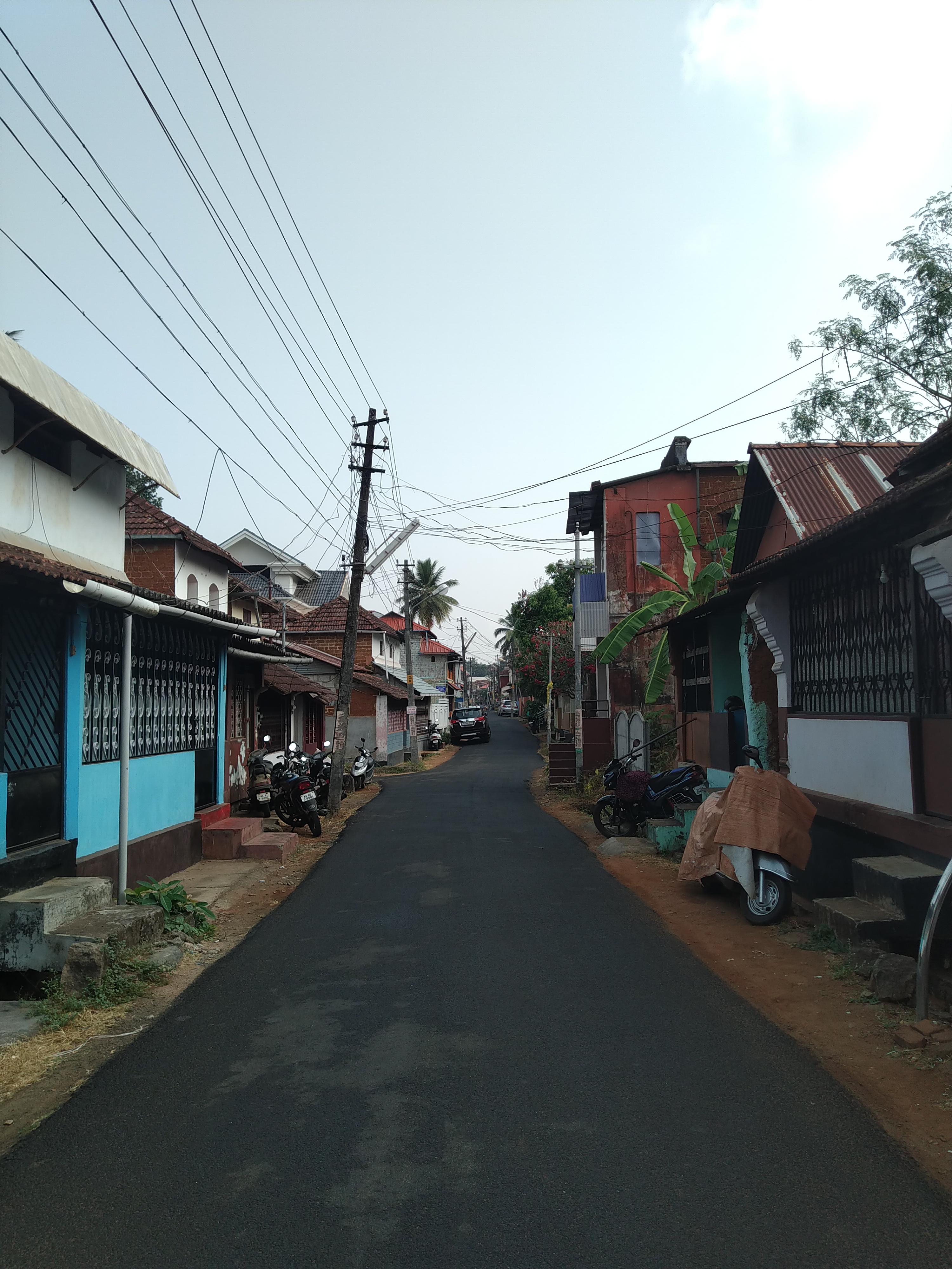 The road that leads to St. Matthias' Temple Church, Kunnamkulam